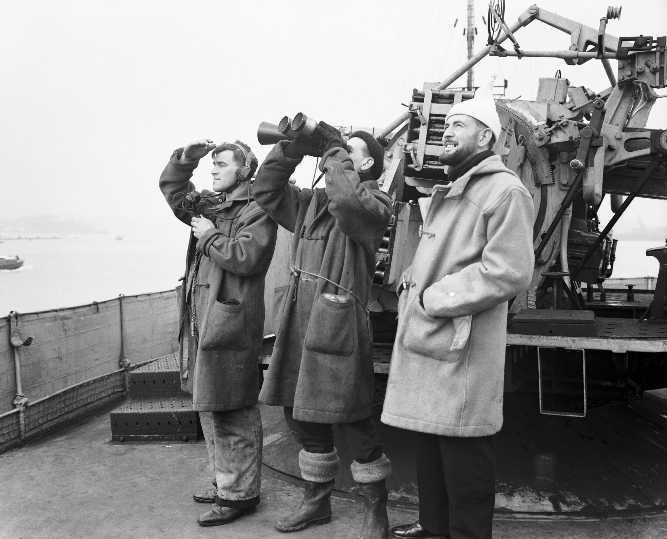 A look-out party clad in winter clothing watching for enemy planes on board the destroyer HMS ATHERSTONE off Plymouth, 7 March 1942. A look-out party clad in winter clothing watching for enemy planes on board the destroyer HMS ATHERSTONE off Plymouth. The Gunnery Officer is on the extreme right.